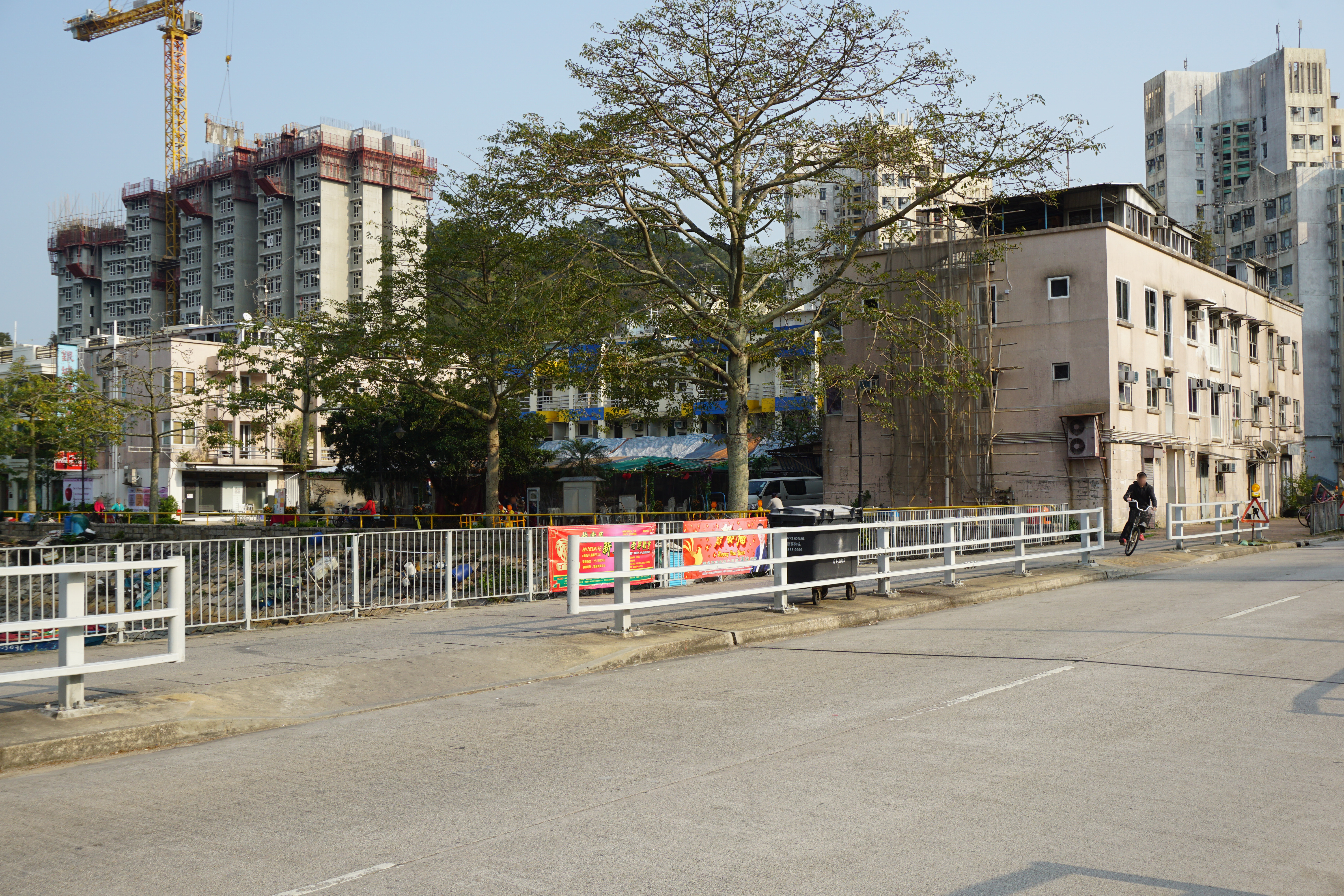 Ngan King Centre in Mui Wo, Hong Kong.